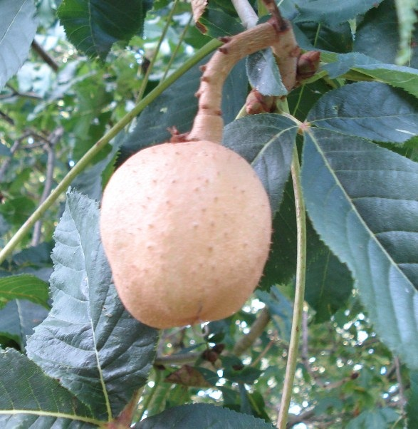 Aesculus × carnea – fruit